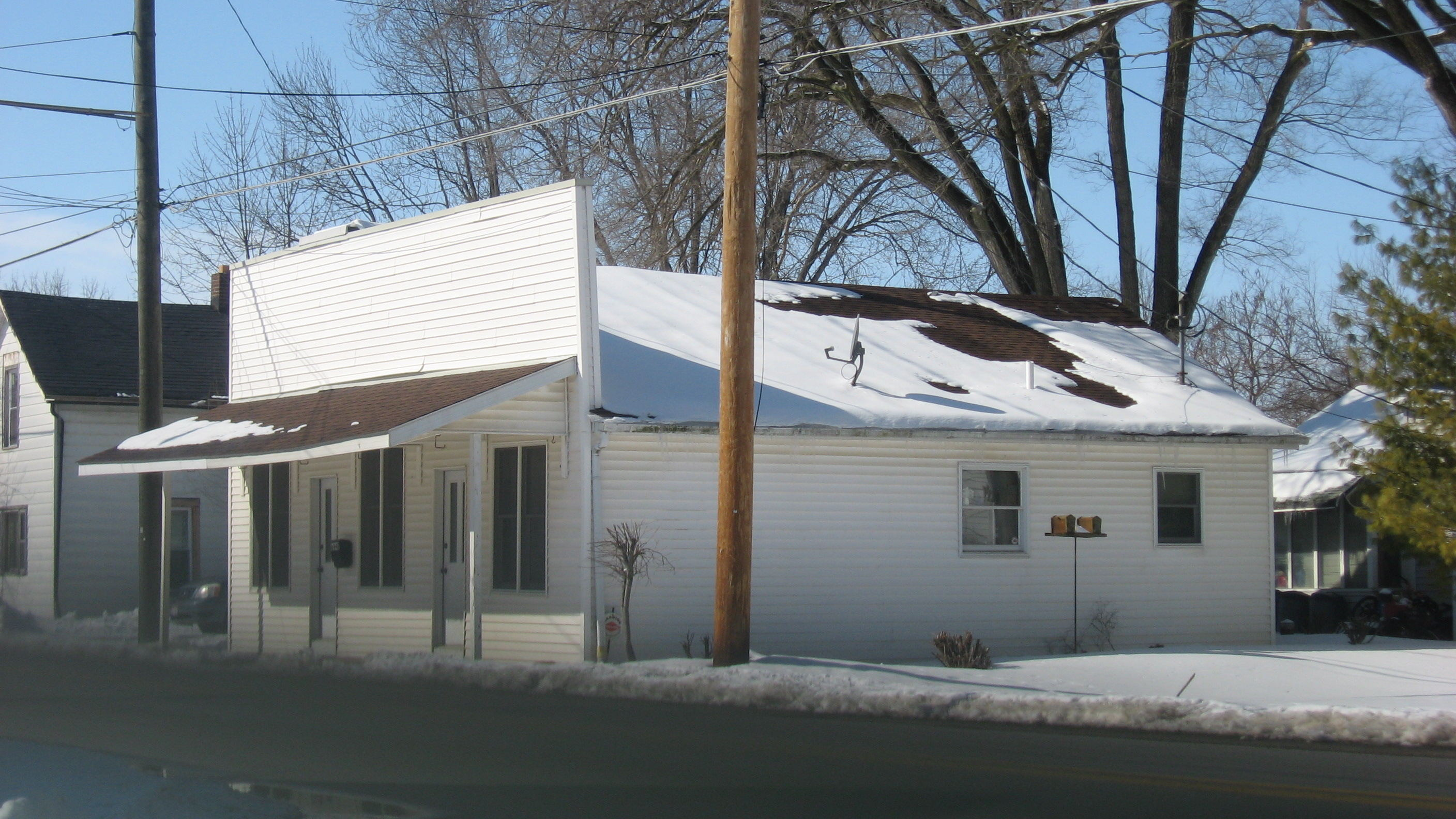 Eastern side and front of the Washington Township Voting Hall, located at 6940 Rings Road in Amlin, Ohio, United States. Built in 1850, it is listed on the National Register of Historic Places.